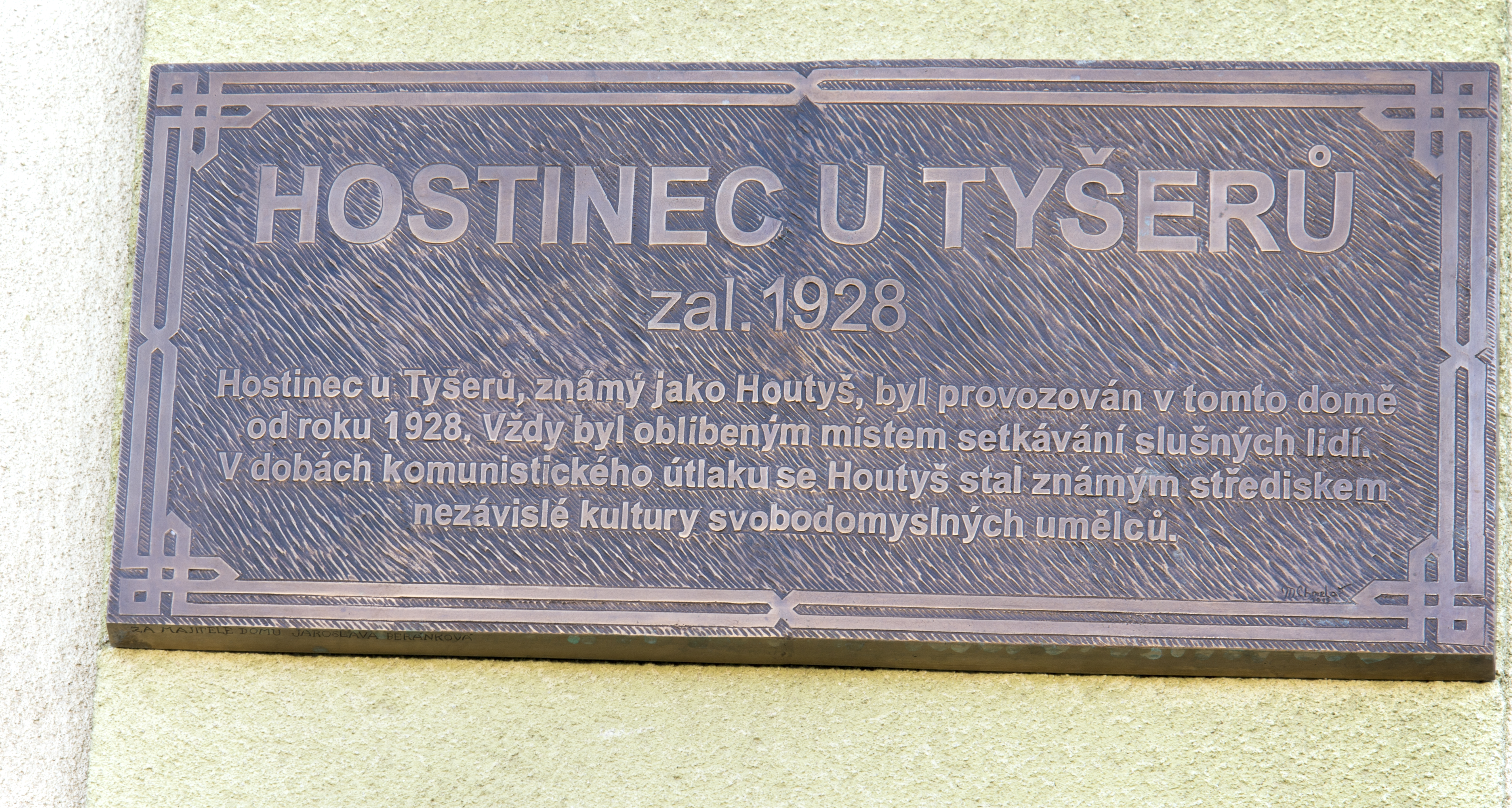 plaque of "U Tyšerů" pub